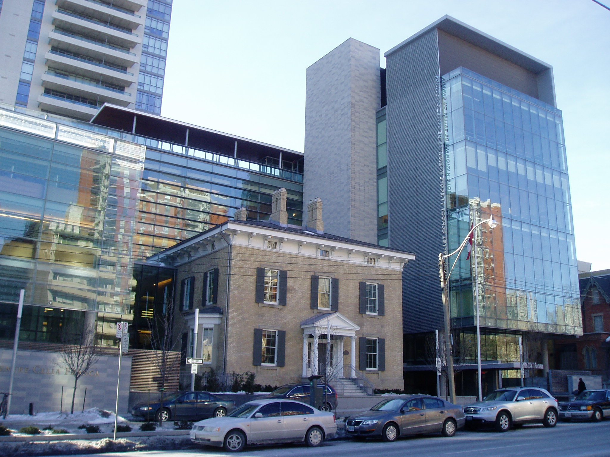 The home of the National Ballet School. Taken by SimonP. The buff brick house-form building in the centre of the image, Northfield House, was built in 1856 for Sir Oliver Mowat, later Ontario's longest serving Premier.